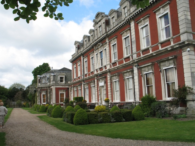 The Mansion, Tring Park. Tring Park [1], once the seat of a branch of the Rothschild banking family, is now home to Tring Park School for Performing Arts [2]. See also . . . . 1608832; 1608834; 1608835